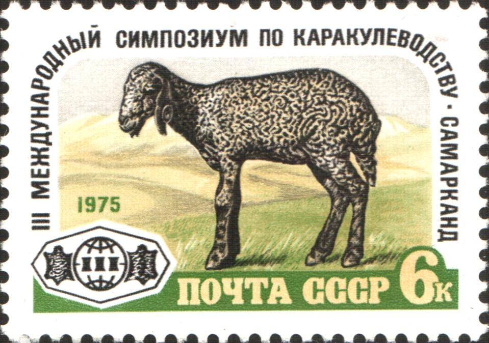 A USSR stamp